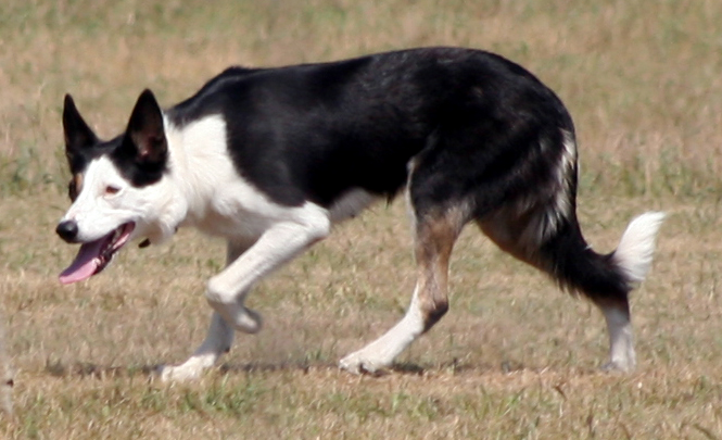 variety.jpg, illustrates the range of appearance for Border Collies